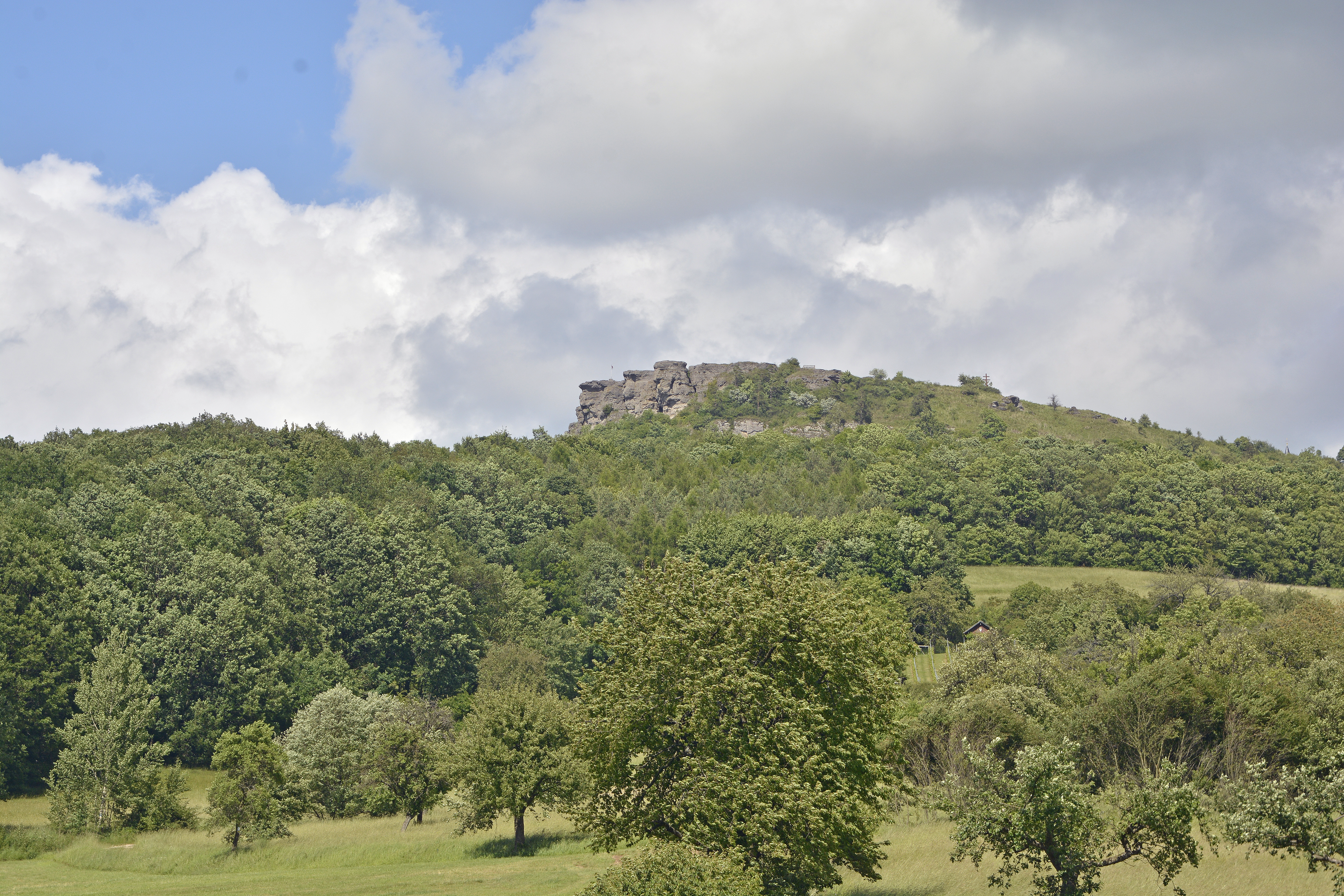 Staffelberg near Bad Staffelstein